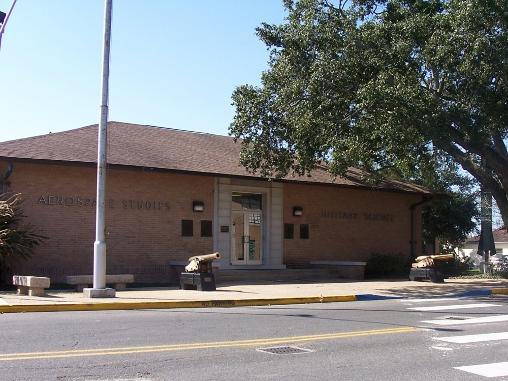 Brass cannon in front of LSU ROTC building